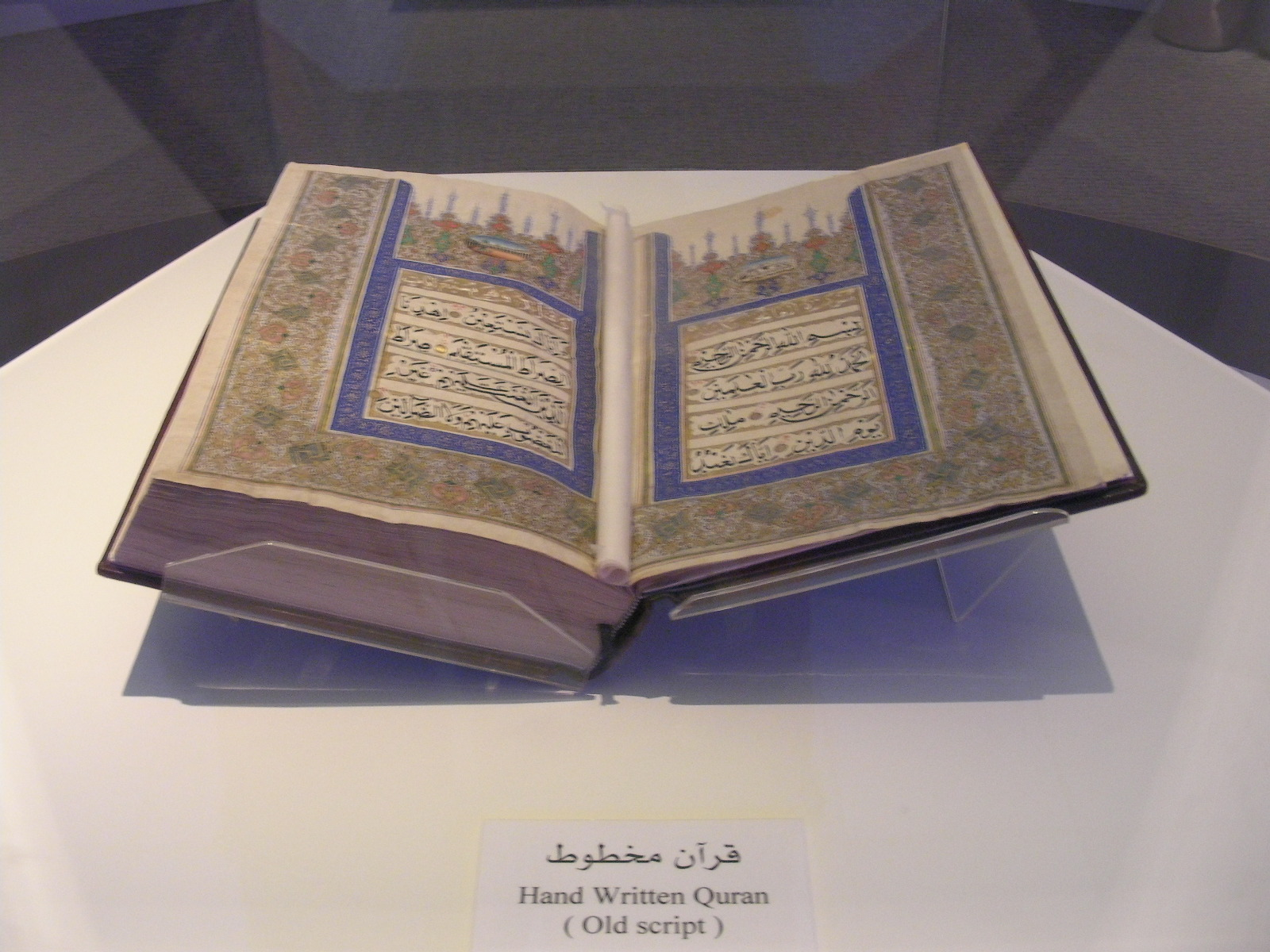 Handscript Quran in Saudi Arabia National museum.